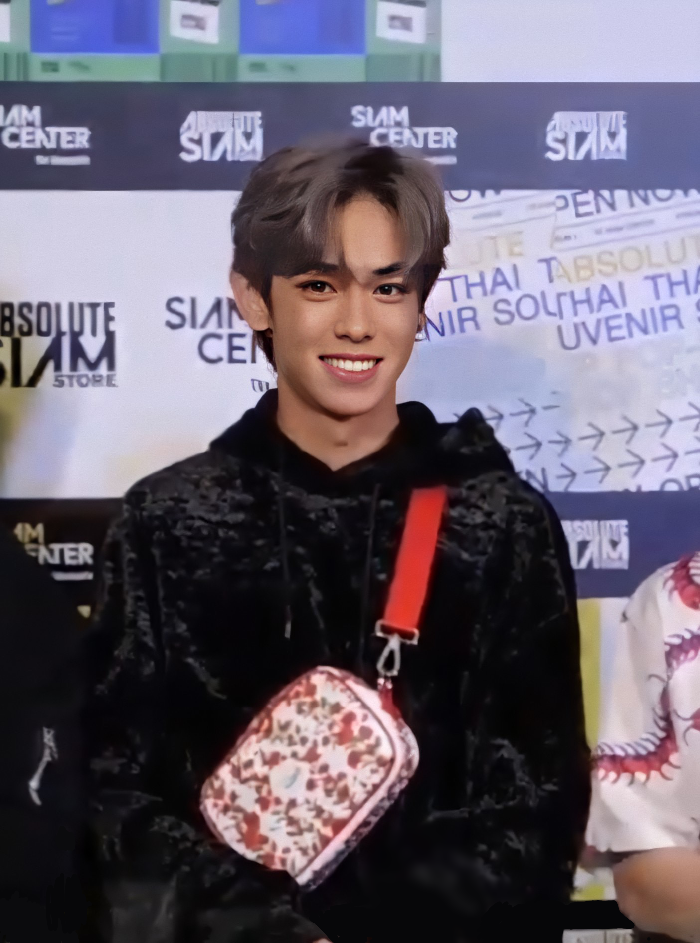 Third Lapat in Siam center This photo is my copyright.